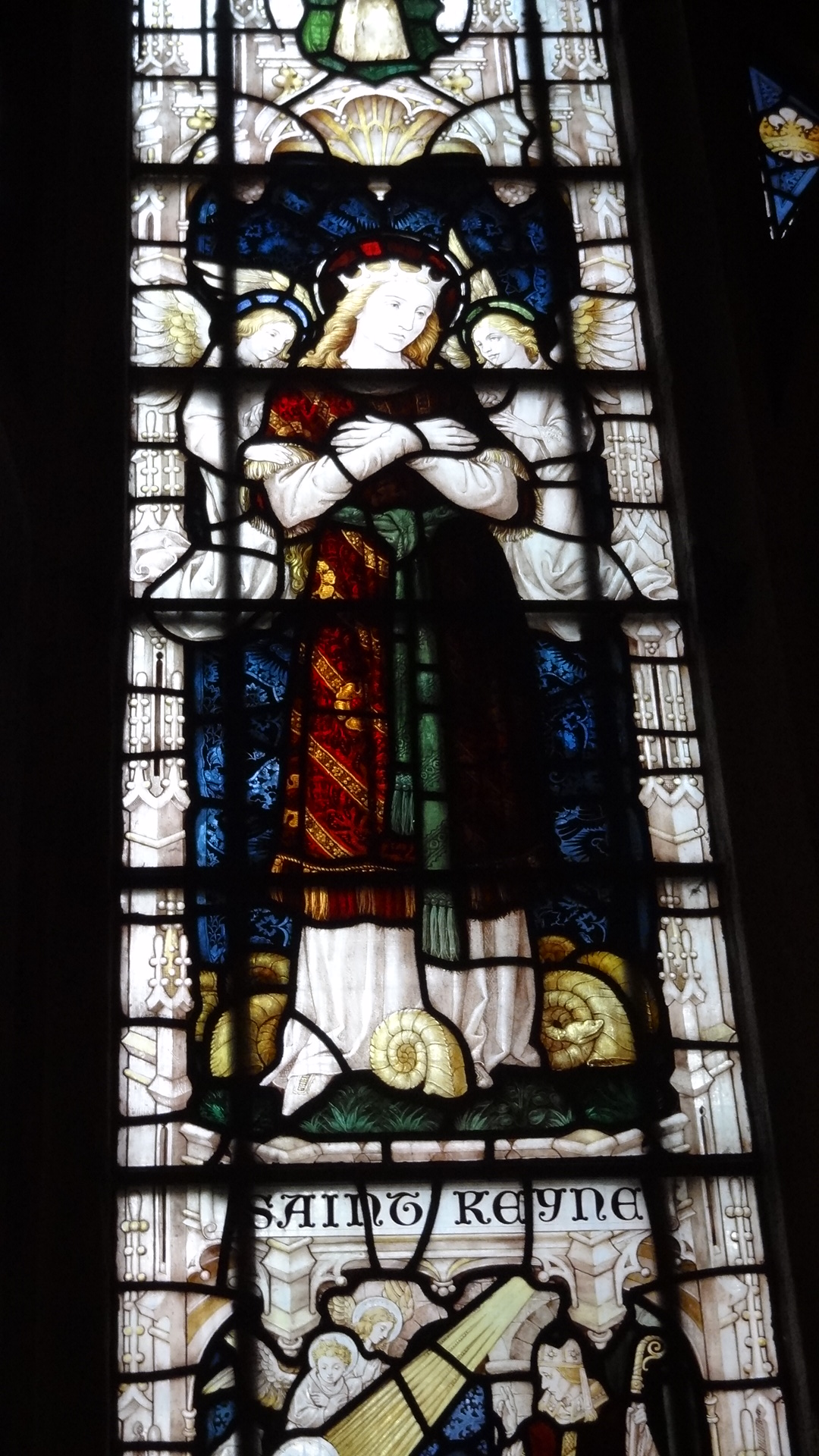 Cain, Brecon Cathederal, Wales